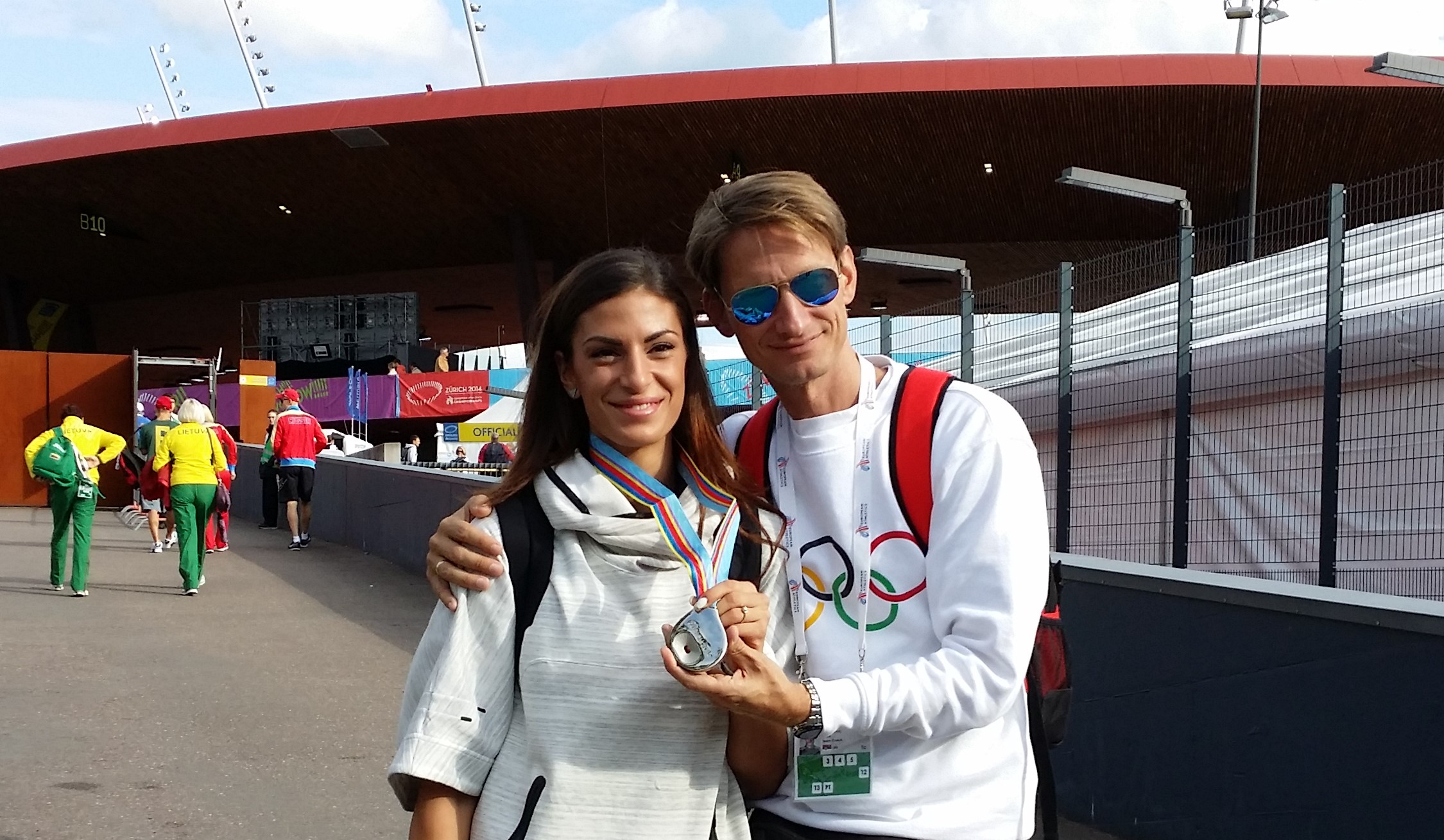 Zurich ECH 2014